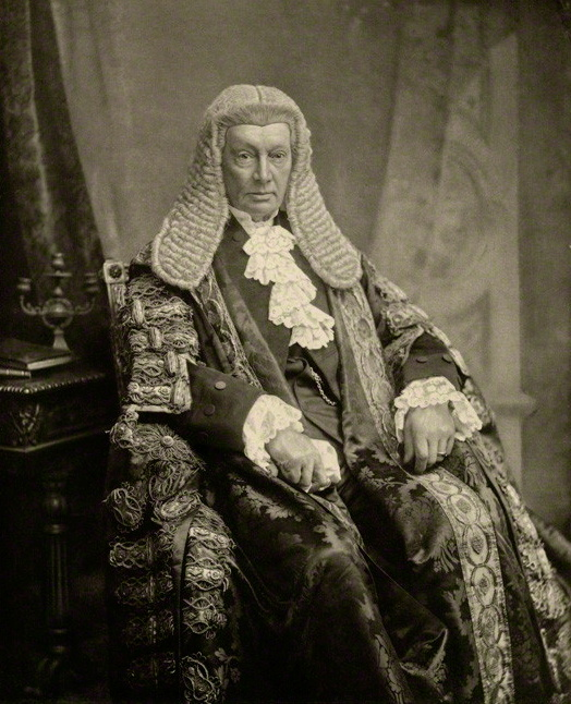 Joseph William Chitty, photogravure